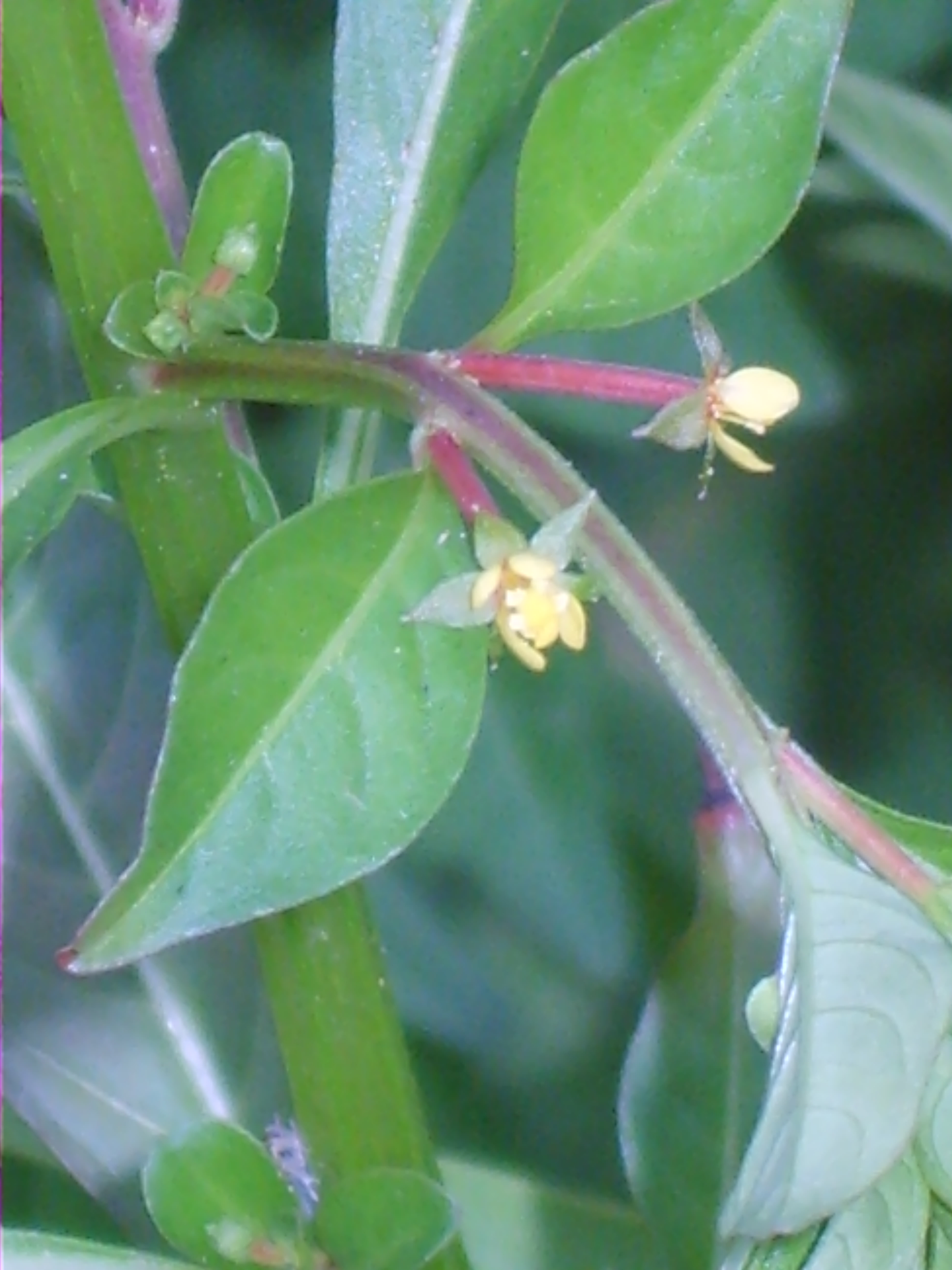 Ludwigia prostrata